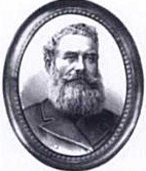 James White MLC, Owner of Cranbrook 1873 to 1890